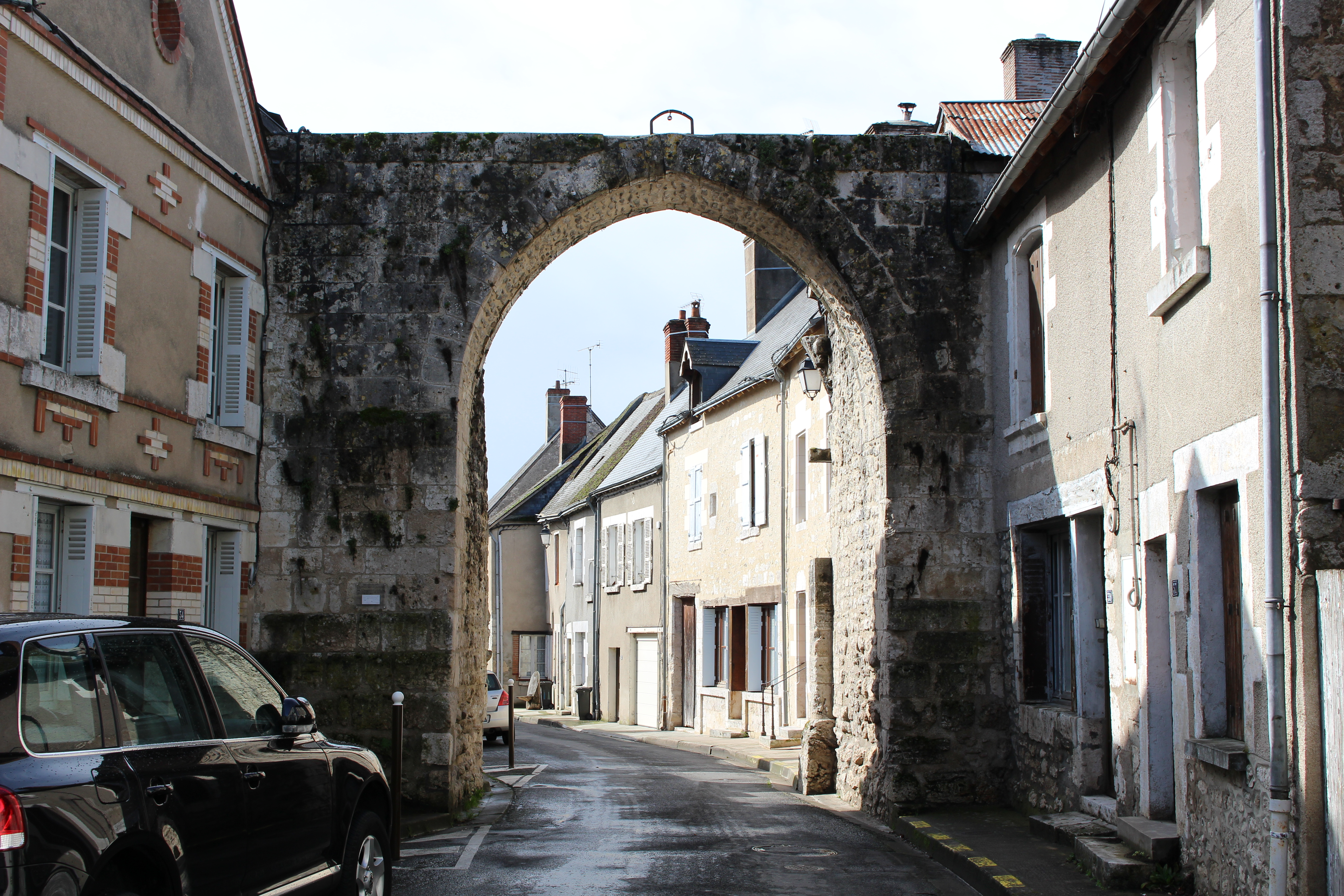 Old Gate of Les Montils